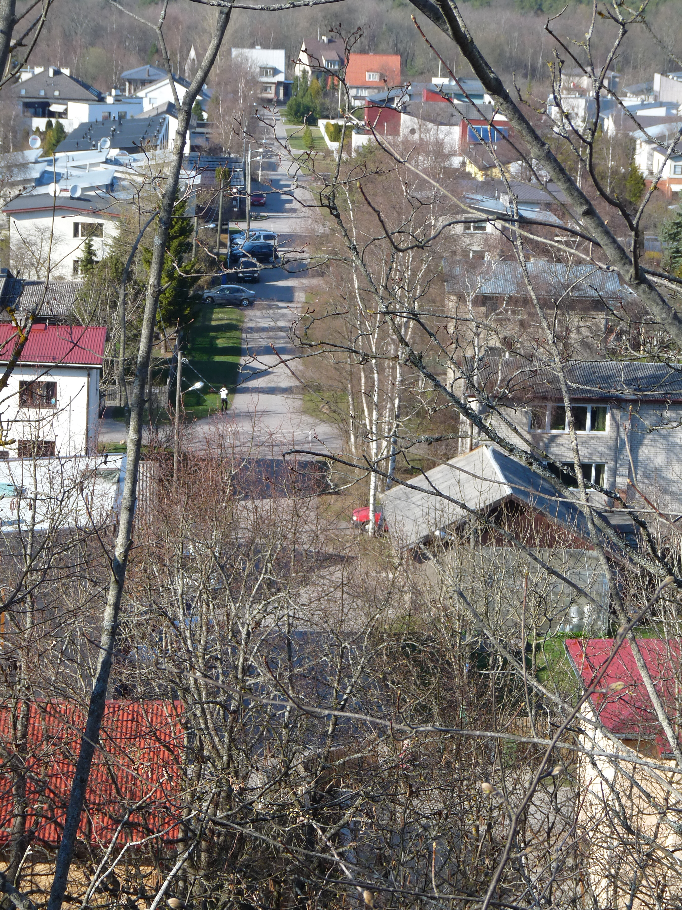 Lehise street in Tallinn, Estonia